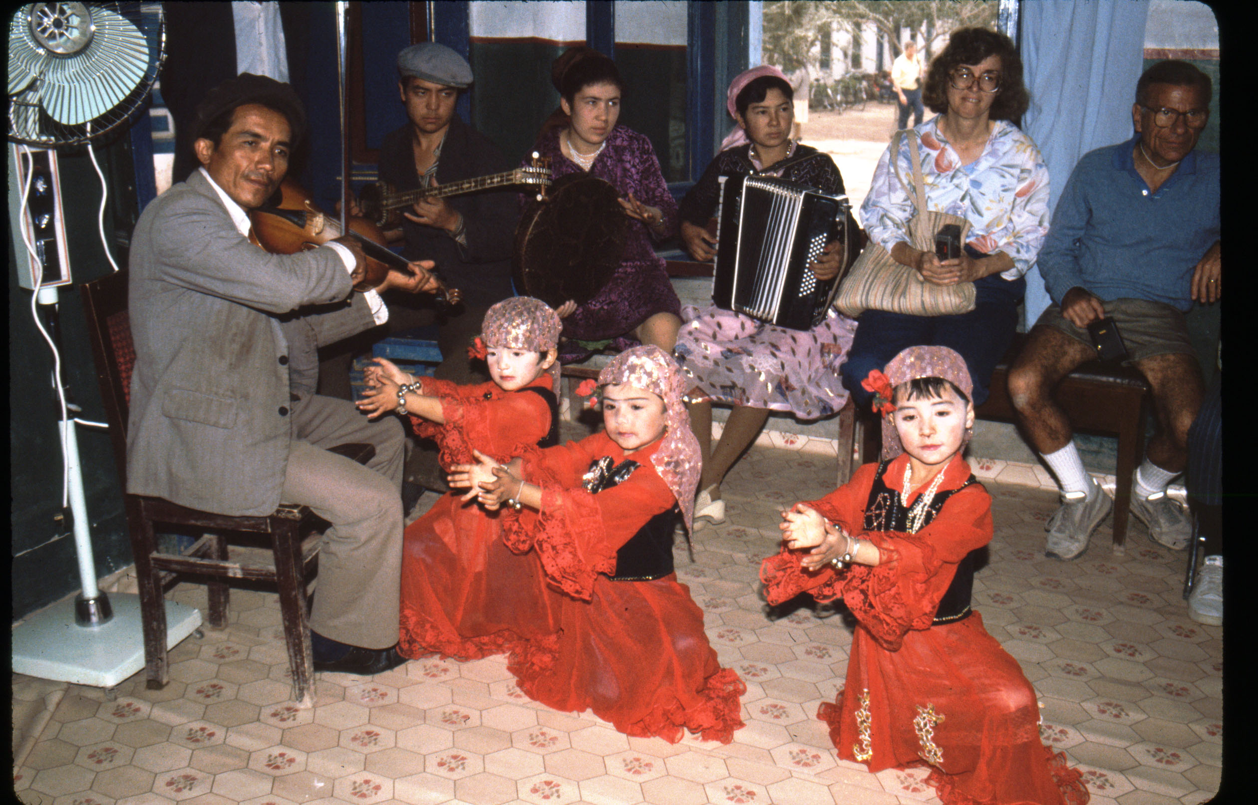 Children at school performing folkloric dances, Kashgar, Xinjiang, China. Subjects at school are music, dancing, math with abacus, writing, paper folding, taught in primitive classrooms.